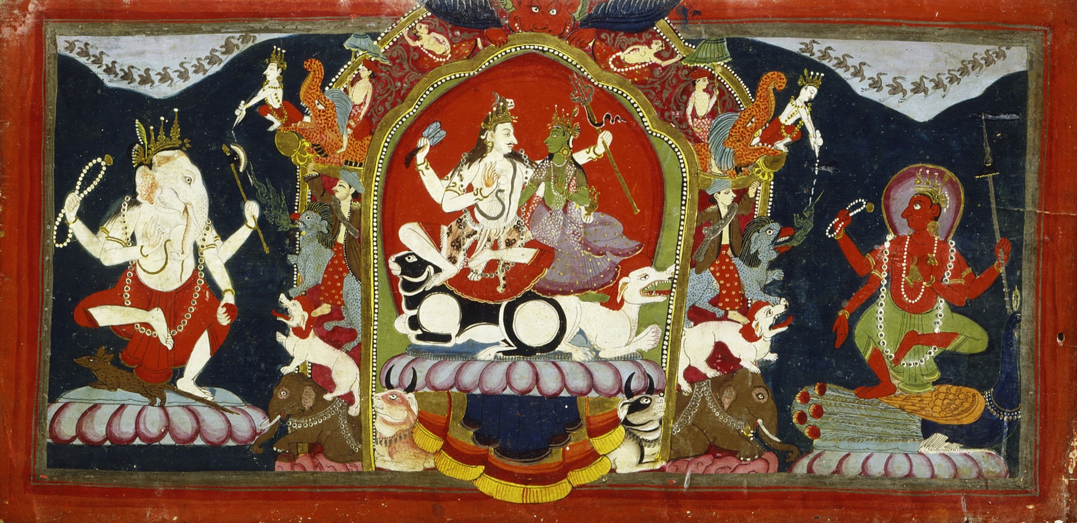 Nepal, 1810 Manuscripts Opaque watercolor, gold, and silver on wood Gift of Jane Greenough Green in memory of Edward Pelton Green (AC1999.127.20) South and Southeast Asian Art